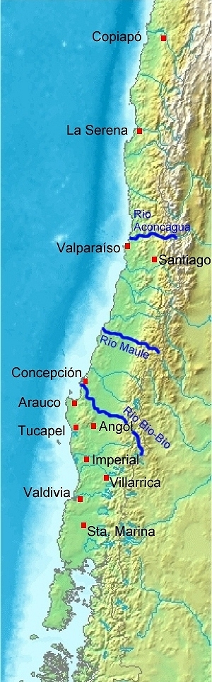 Map of Chile. Pedro de Valdivia. Locations of colonization in Chile, 1540 - 1553